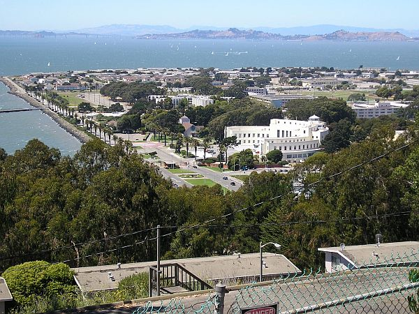 Treasure Island (San Francisco) as seen from Yerba Buena Island, July 2007